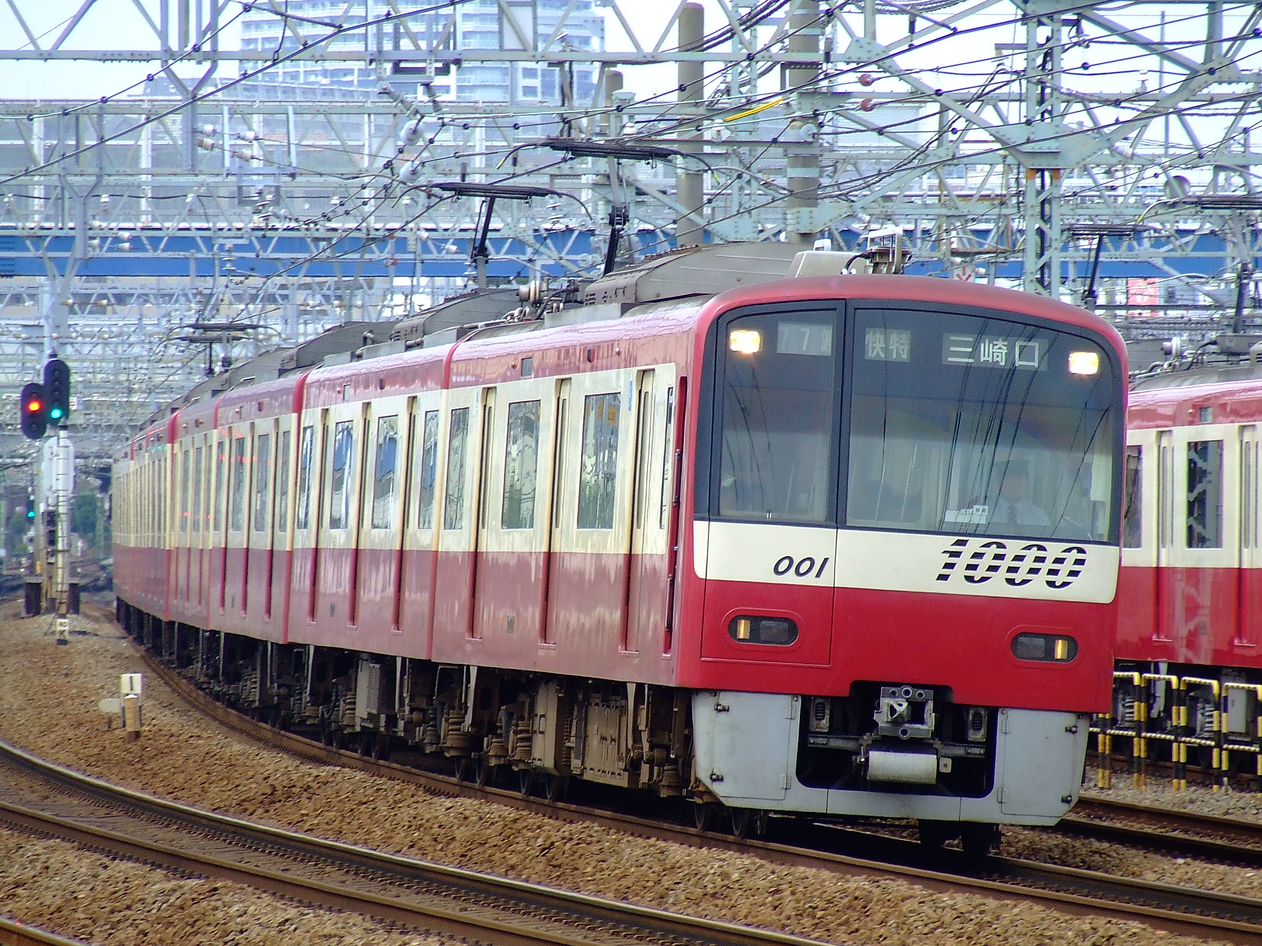 Keikyu N1000 series EMU set 1001 on the Keikyu Main Line between Kanazawa-Bunko and Kanazawa-Hakkei